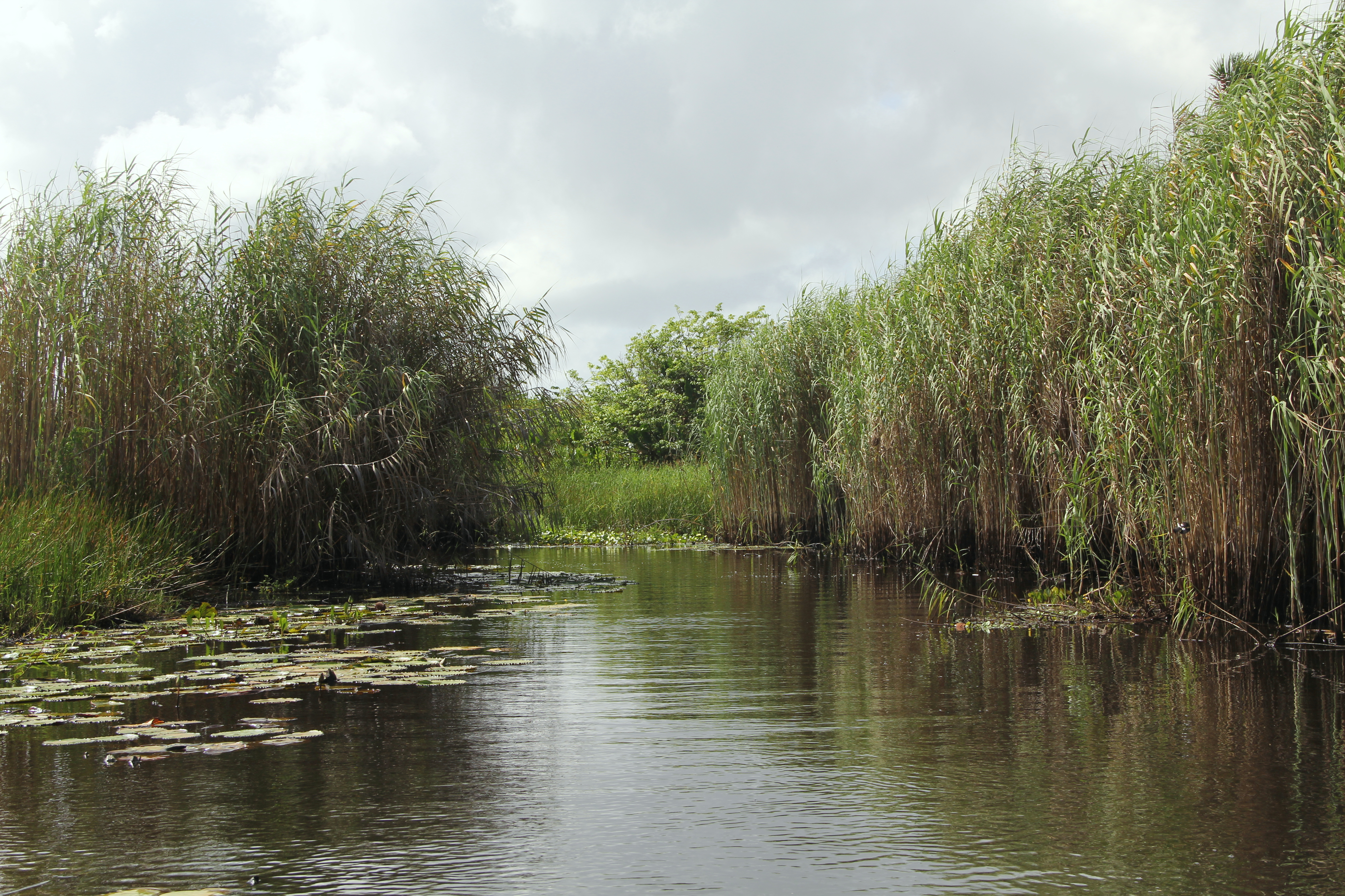 Nariva Swamp on the eastern seaboard of Trinidad